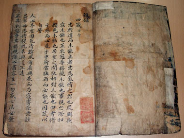 one page of Yu Hyungwon's Bangyejip